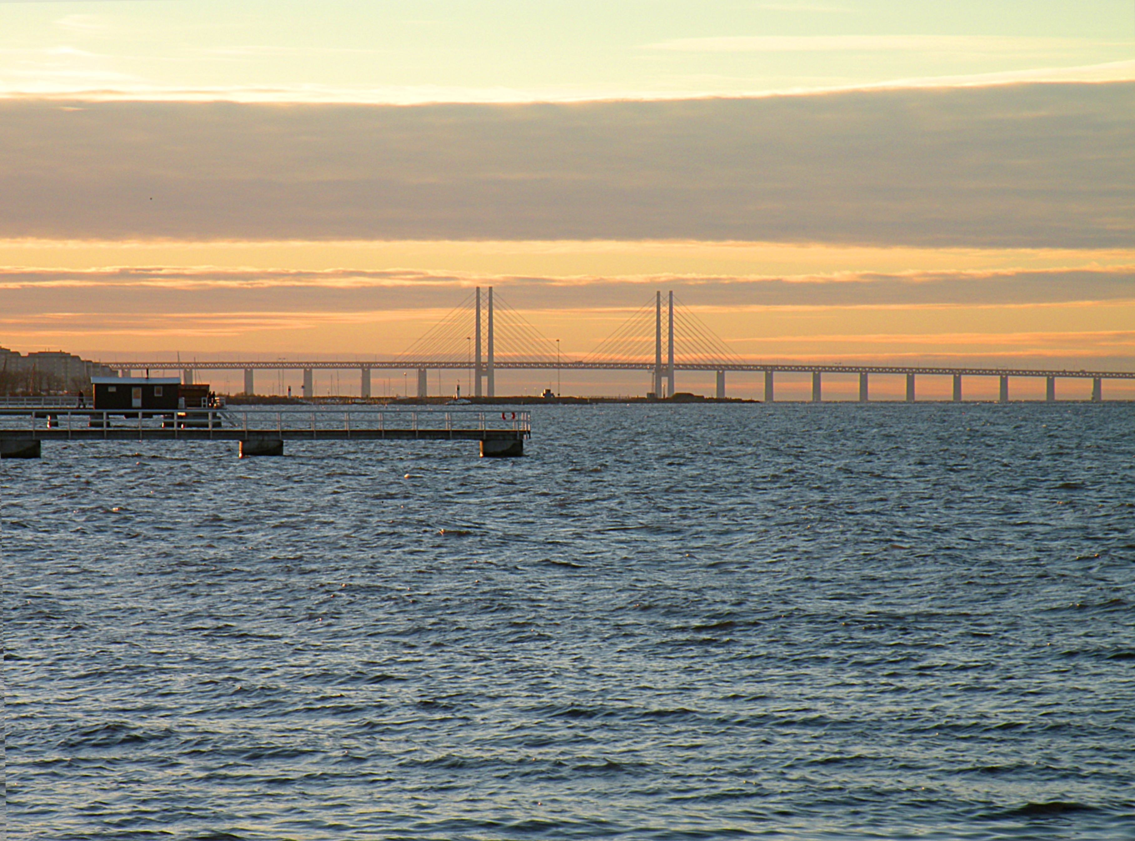 Oresund Bridge